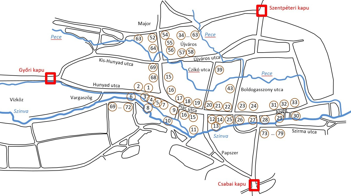 Location of sites in Miskolc 1702 (after Marjalaki Kiss)